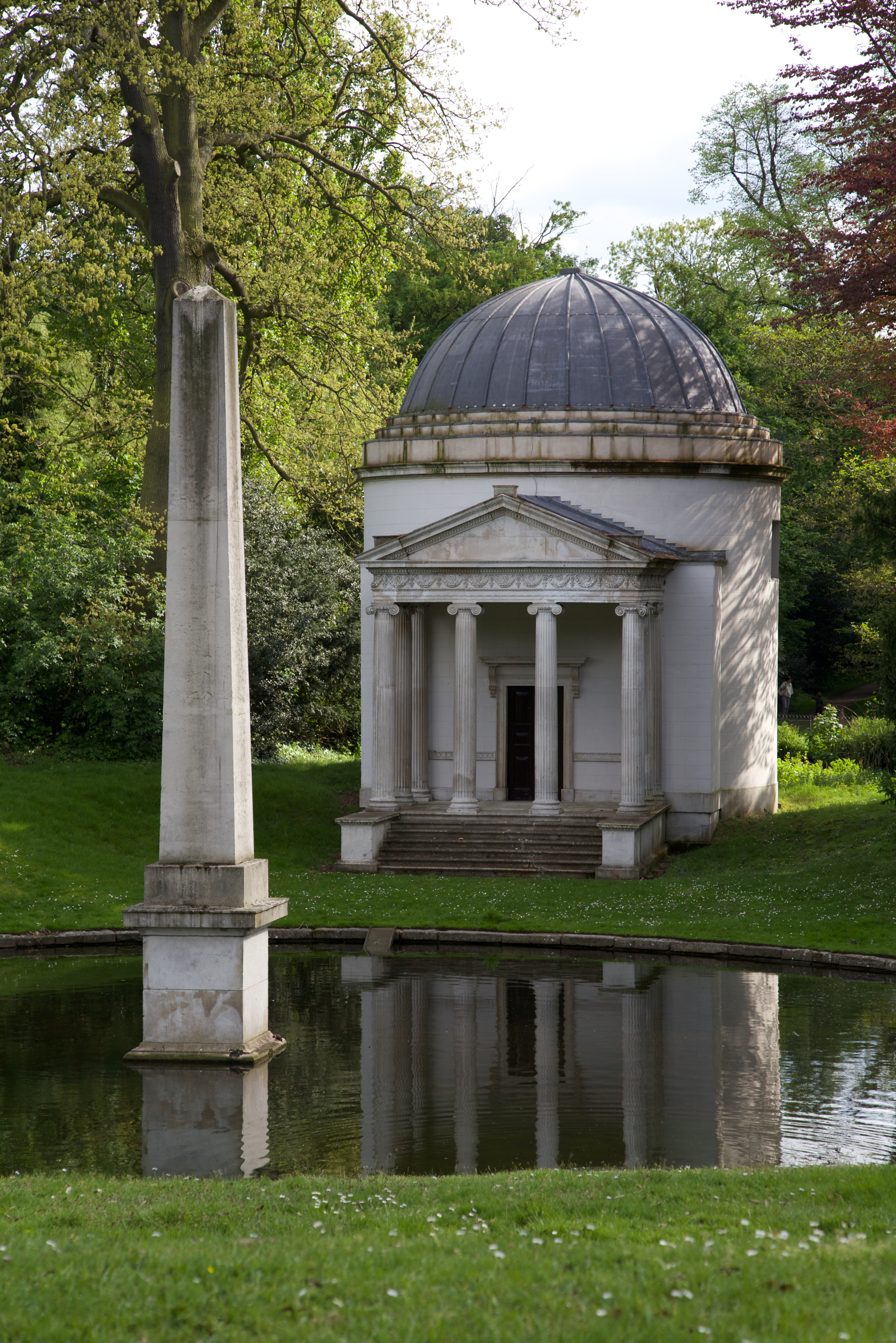 Chiswick - Obelisk & Ionic Temple